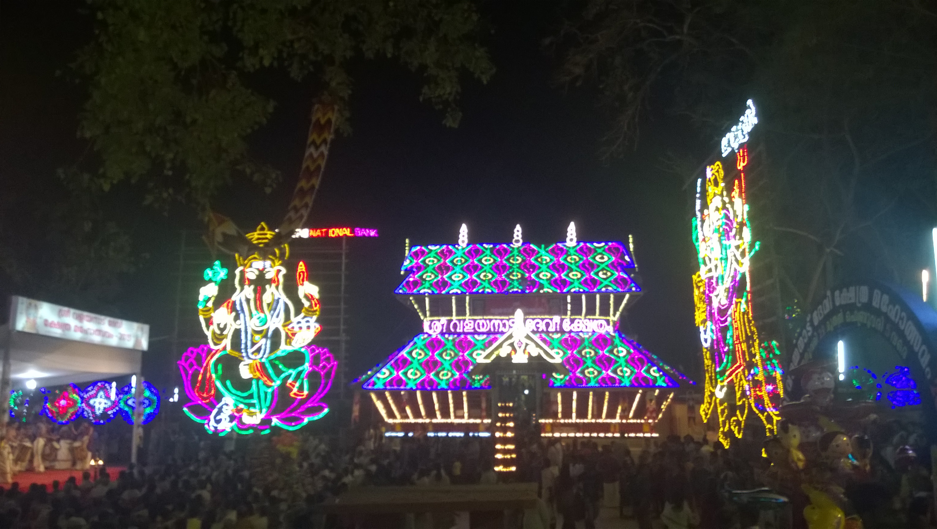 night view of valayand devi temple during ultsavam2015